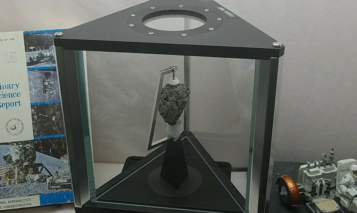 This is the Apollo 11 lunar rock located at the Colorado School of Mines Geology Museum.